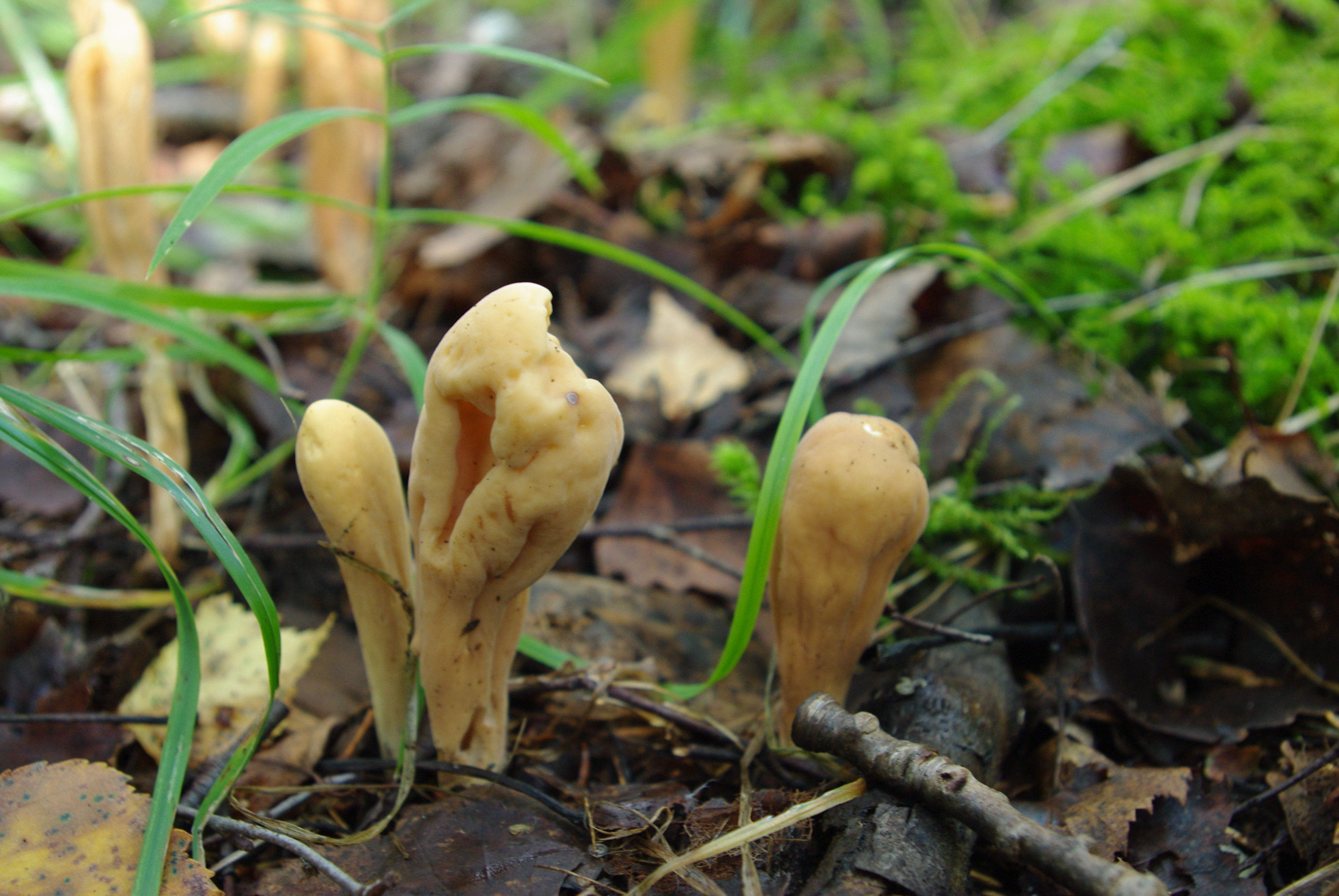 The Giant Club (Clavariadelphus pistillaris) growing near a birch tree